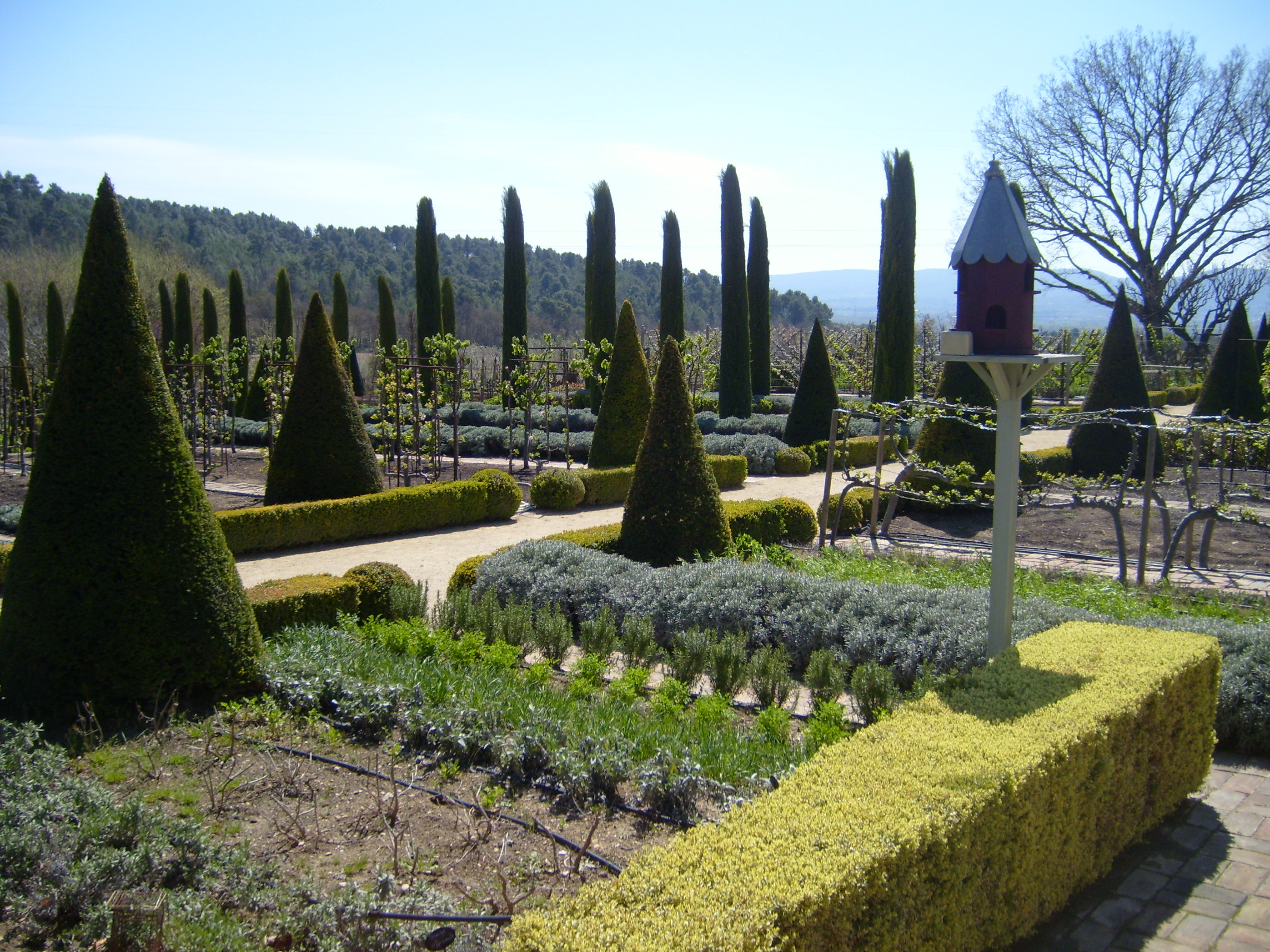 Garden of Val Joannis winery, Côtes du Luberon, near Pertuis, France